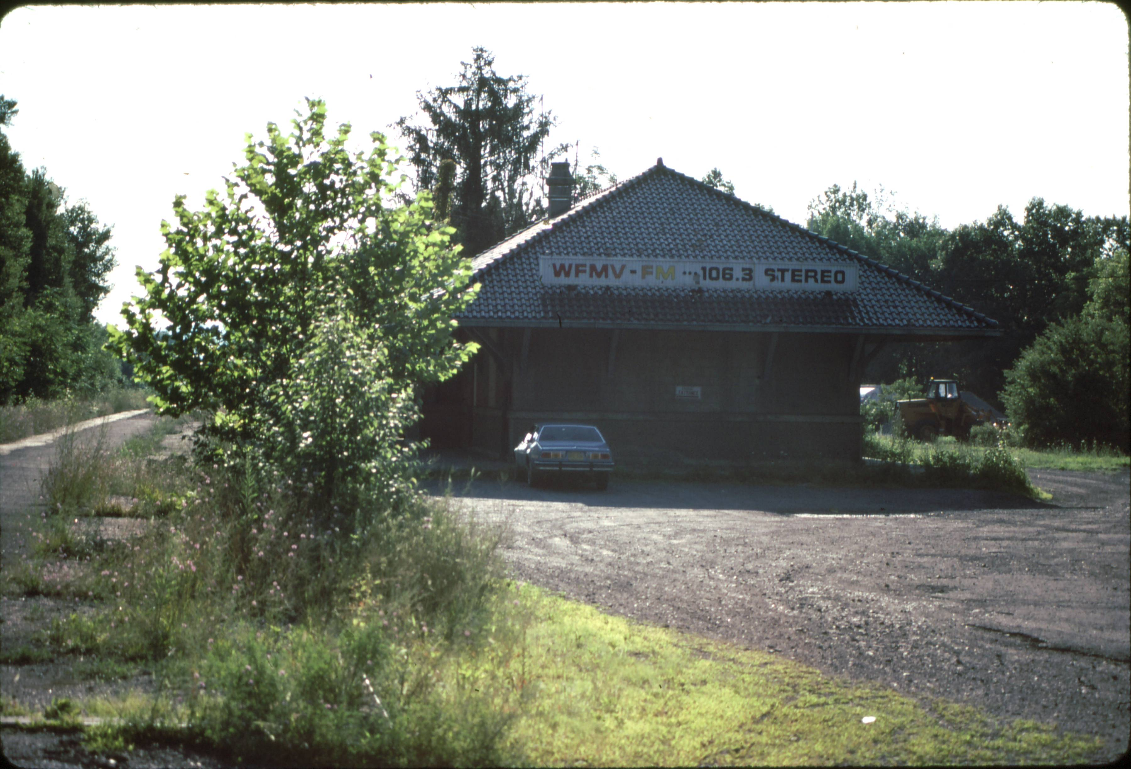 Chuck Walsh